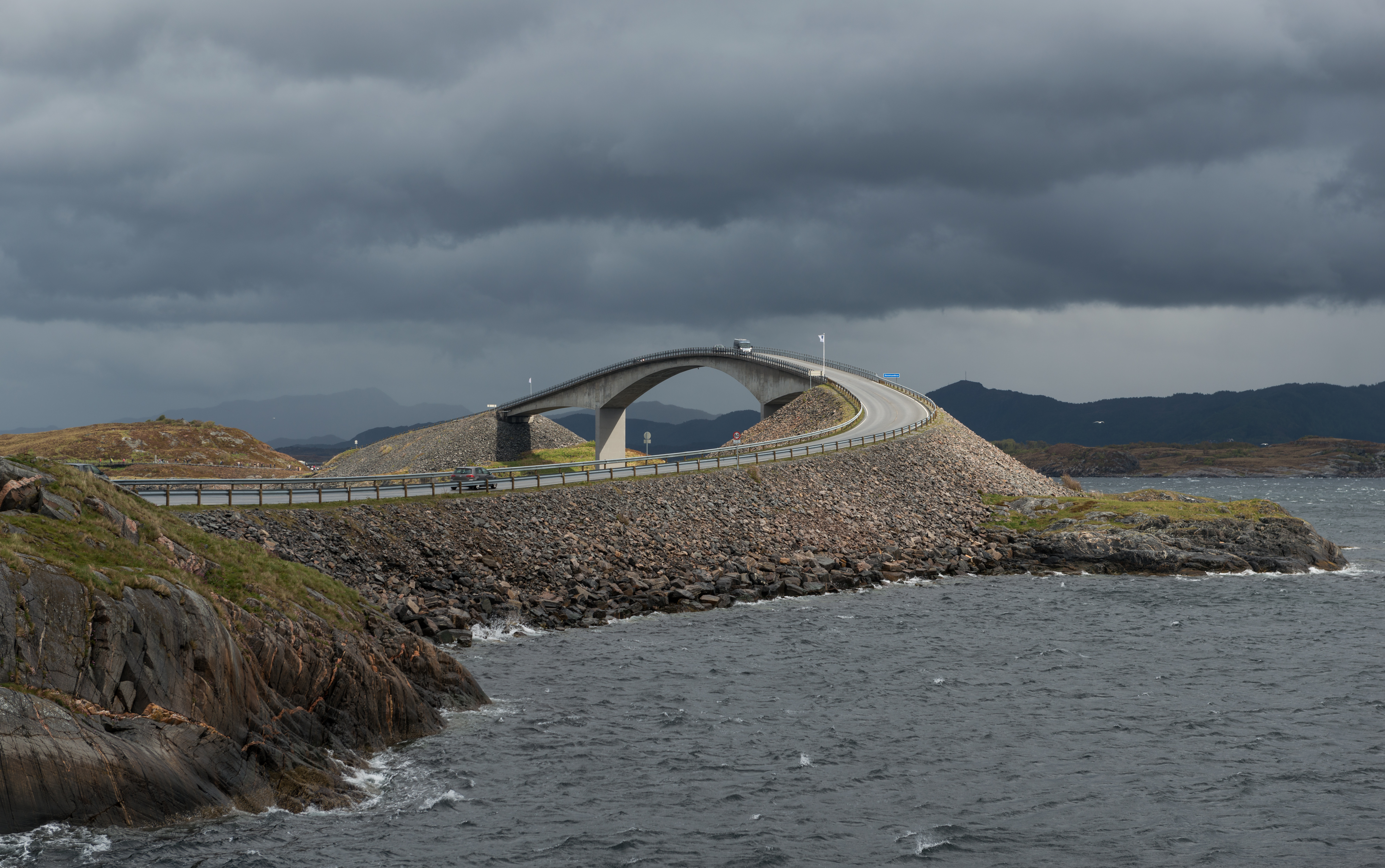 A view of the Storseisundbrua that forms part of the Atlantic Ocean Road